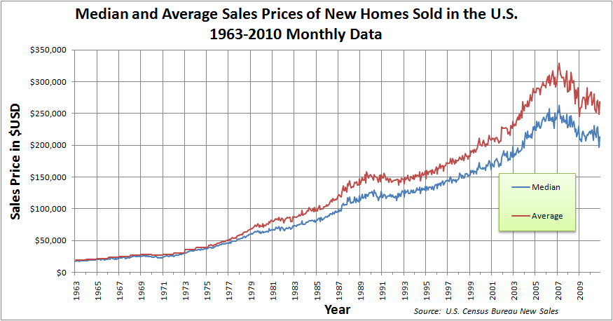 Chart showing the median and average sales prices (read "$USD" as "USD" or "US$", ignore "$" symbols in vertical axis labels) of new homes sold in the United States by month/year. Based on US Census Median and Average Sales Price of New Houses Sold Data. Please note that the sales price includes land. Also, the average from 1963 to 1974 inclusively is annual, and not monthly.